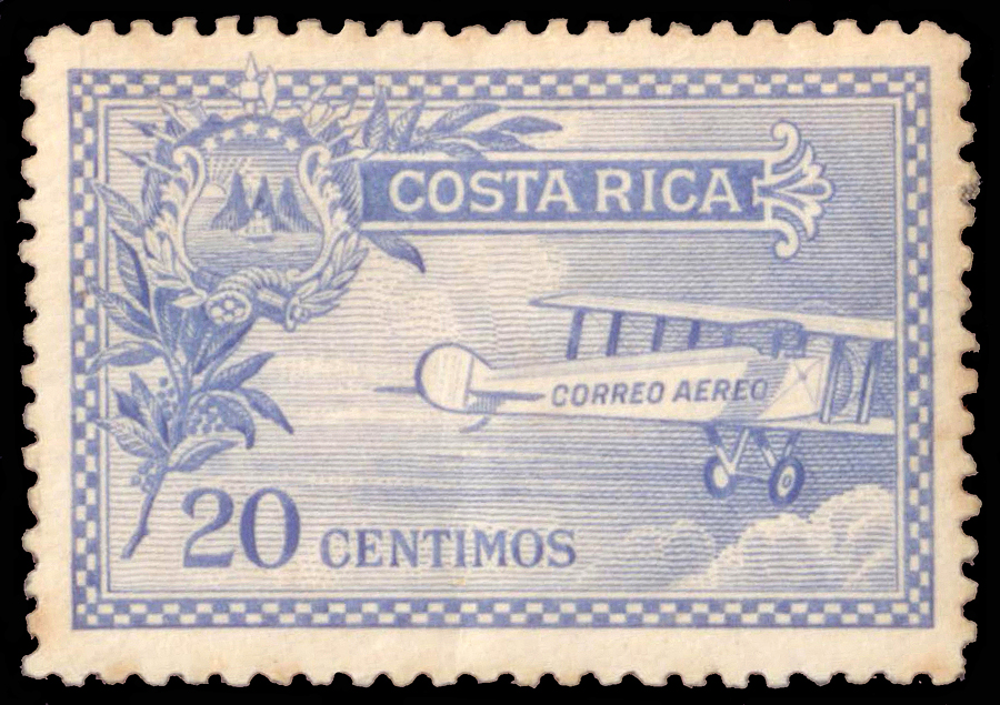 First "Air Mail" postal stamp issued in Costa Rica in 1926.